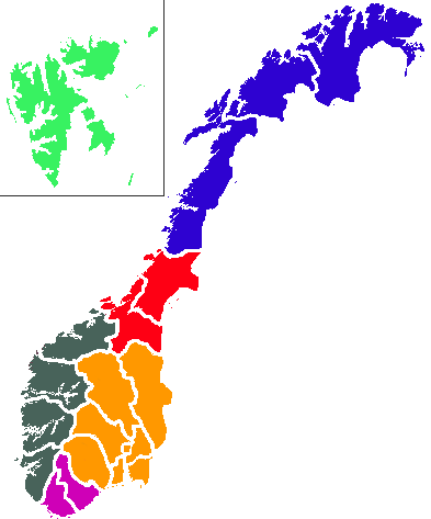 Modified version of Image:Fylke kart.png by User:Pyramide. Original created by User:Martin.